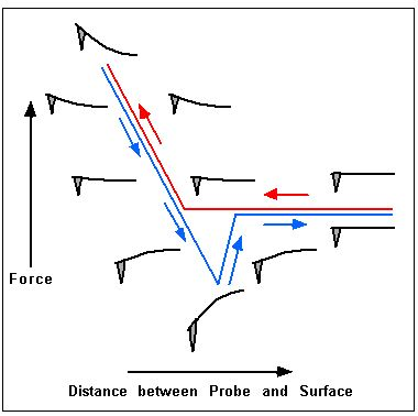 Force curve of AFM